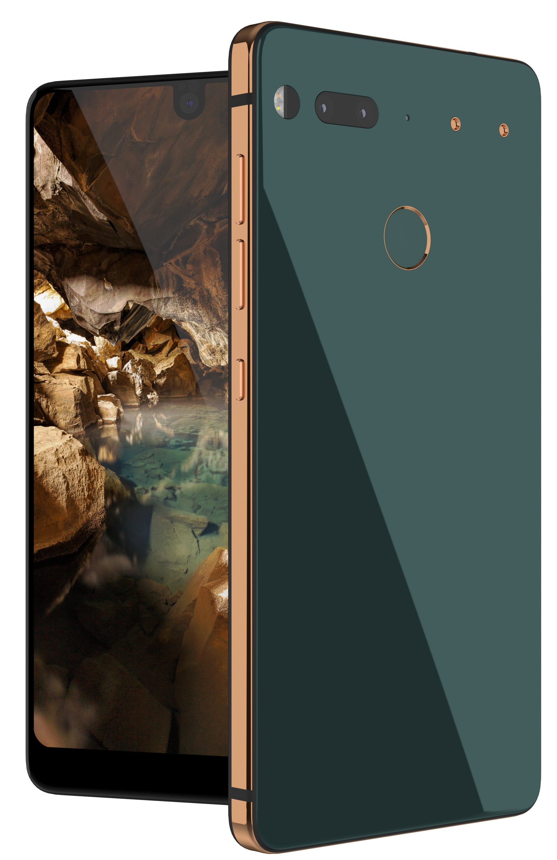 Front and back of the Essential phone in ocean depths.